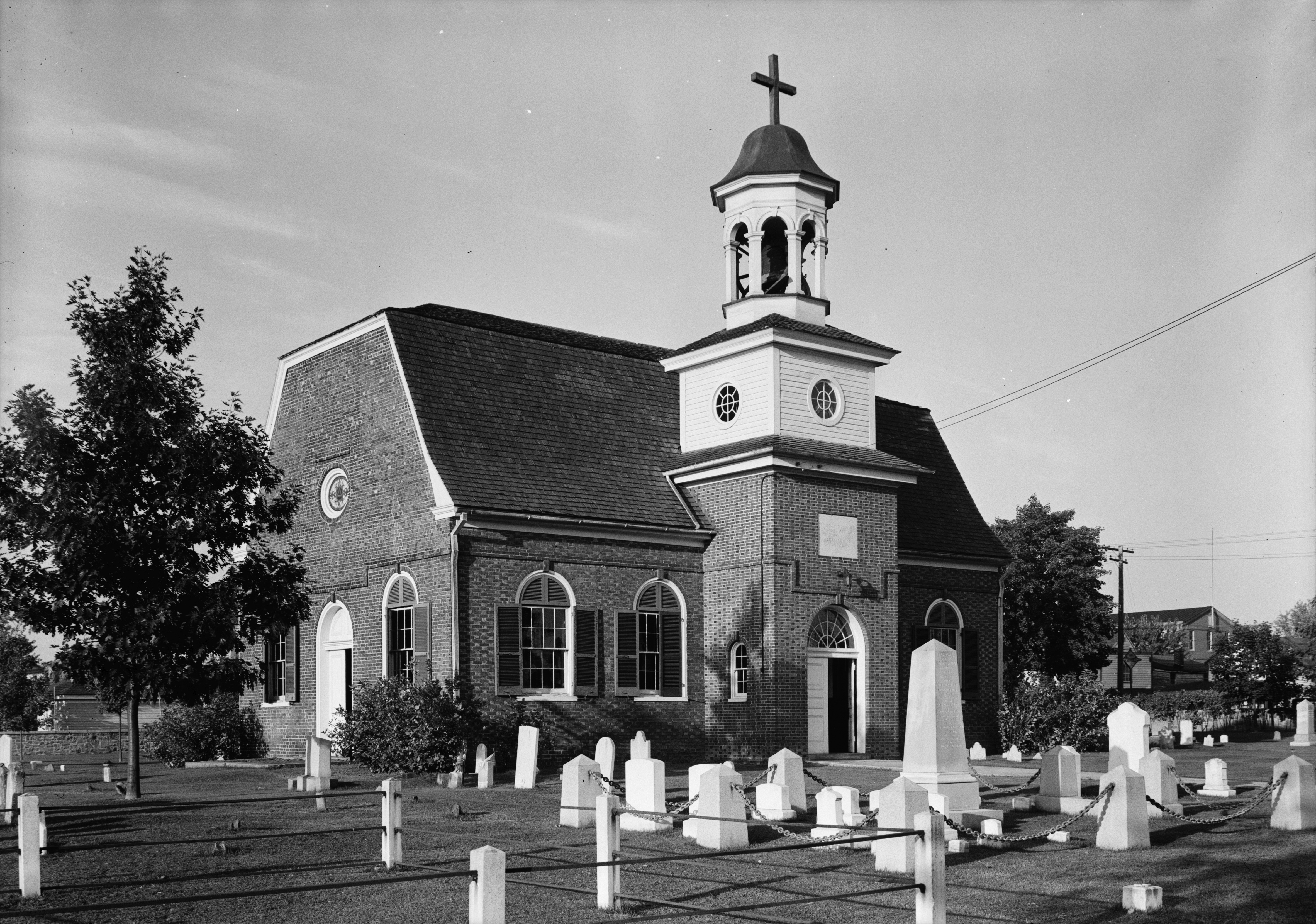 St. Mary Anne's Episcopal Church, 315 South Main Street North East, Maryland, BUILT 1700 TOWER 1904, front and side elevations